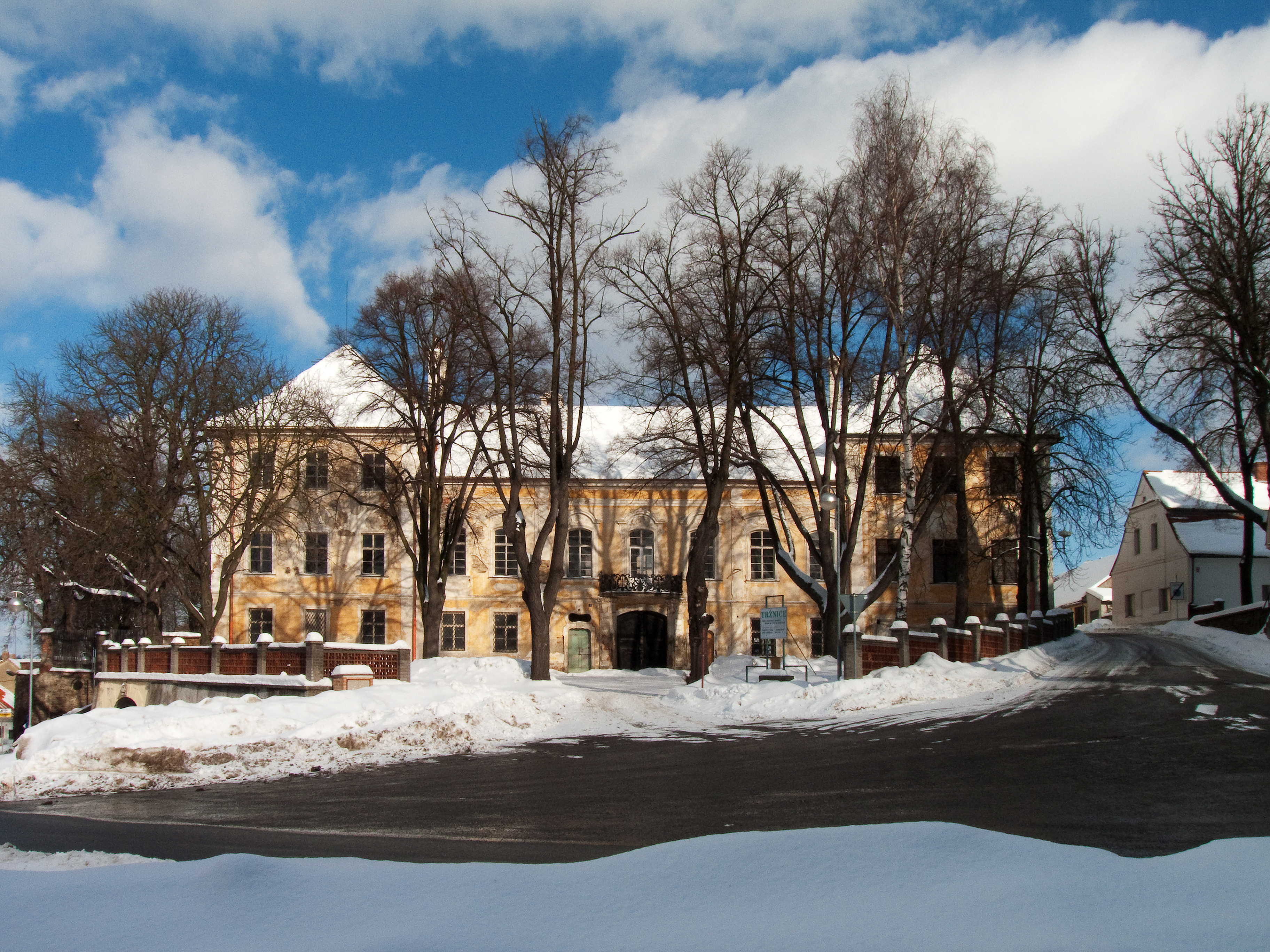 Winter view of the chateau in Mladá Vožice, Tábor District, Czech Republic